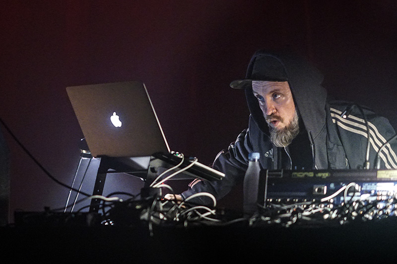 Kevin Martin (the Bug) at Aarhus Festival, Denmark 2018 (Performing with Dylan Carlson / Earth (g))